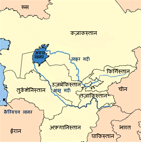 This is a map of area around the Aral Sea including the Amu Darya and Syr Darya rivers. The Aral Sea boundaries are circa 1960 but the political boundaries are the present-day ones. Countries that are at least partially in the Aral Sea watershed are in yellow.